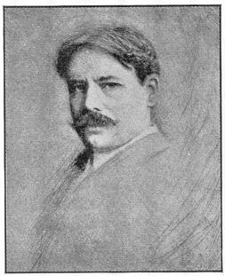 Description: Edward MacDowell Size: 253 × 311 pixels Source: What We Hear in Music, Anne S. Faulkner, Victor Talking Machine Co., 1913.